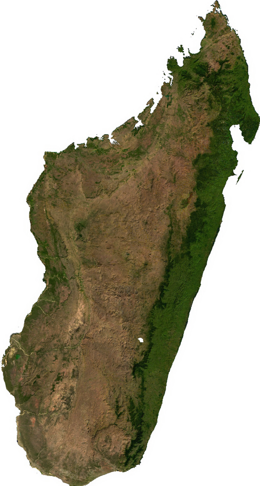 Madagascar as viewed from satellite imagery. ECW to TIFF to PNG (compression level 9).